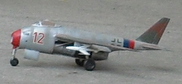 Model photo Messerschmitt Me P.1101 The markings and X-4 rockets are phantasy